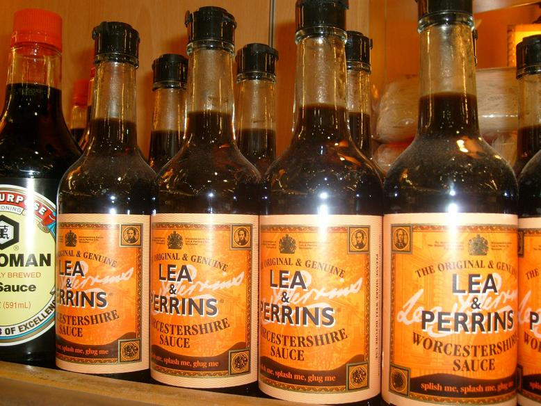 Worcestershire sauce